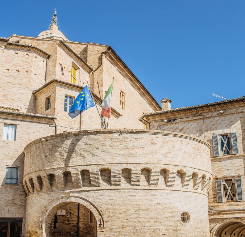 Torrione